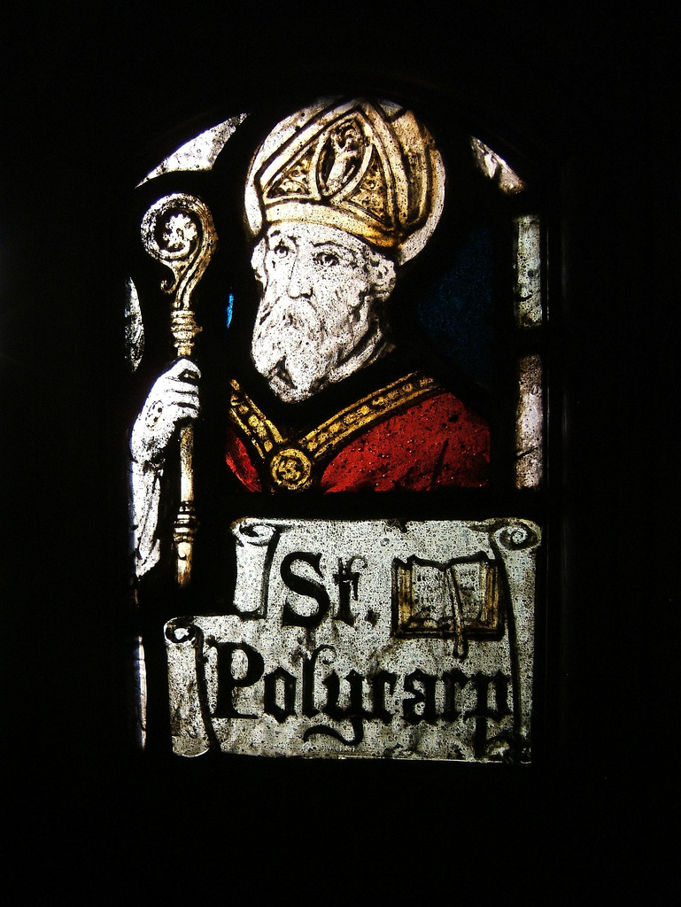 Rectory, St. Stephen's Stained glass. Detail: St. Polycarp